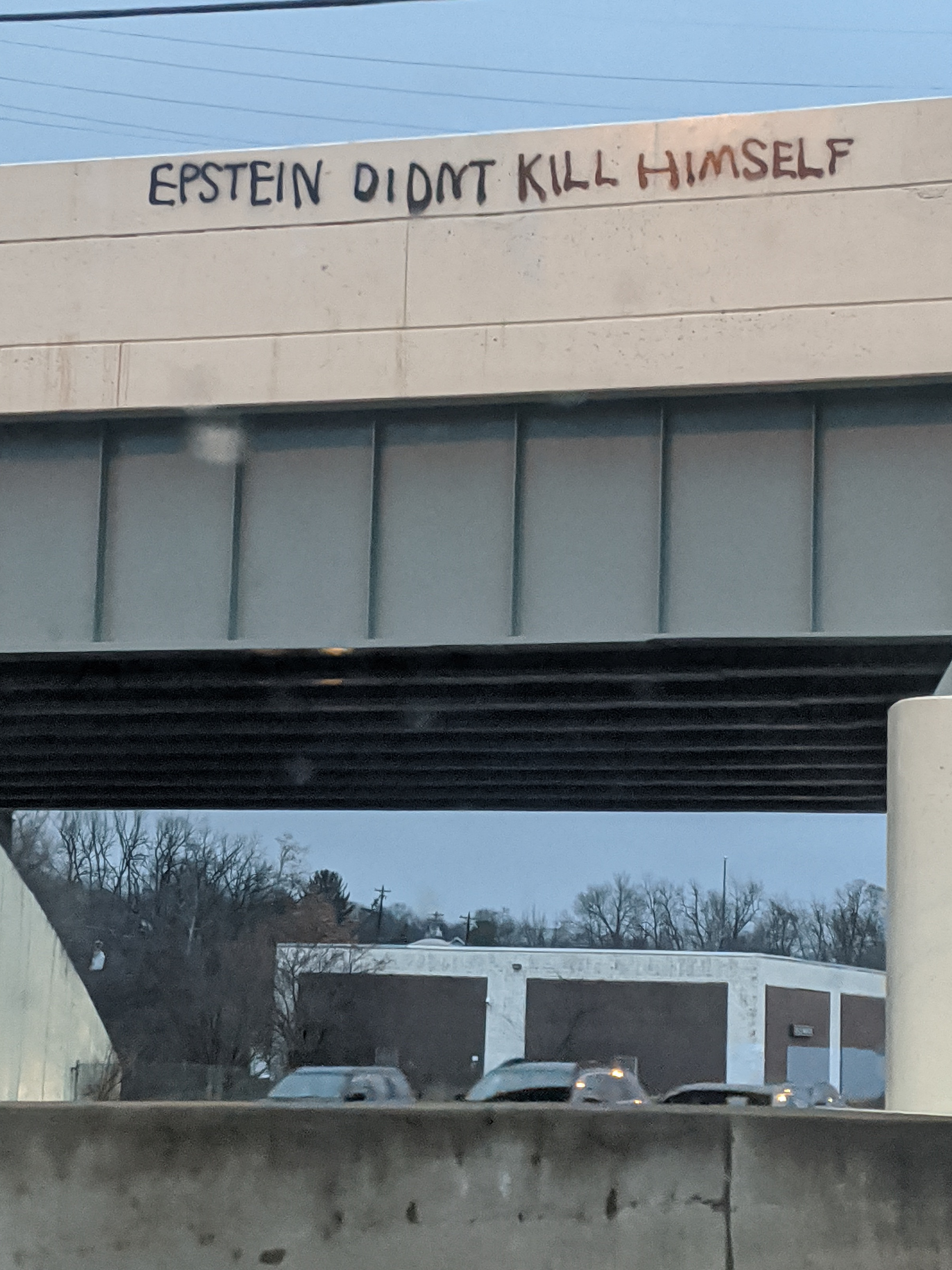 Graffiti on an overpass on I-71 N in Cincinnati, Ohio.